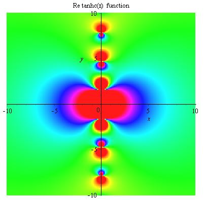 Tanhc Re plot